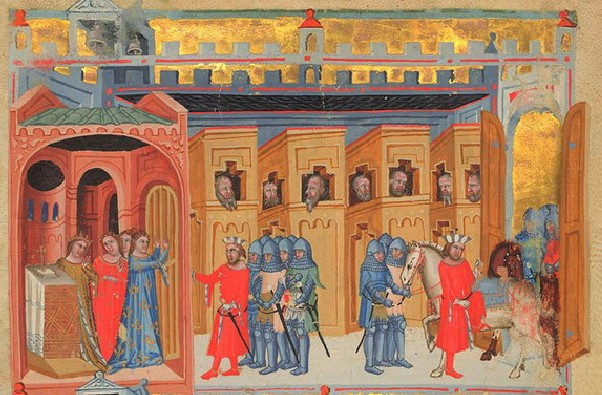 Bretislaus I of Bohemia + Judith of Schweinfurt